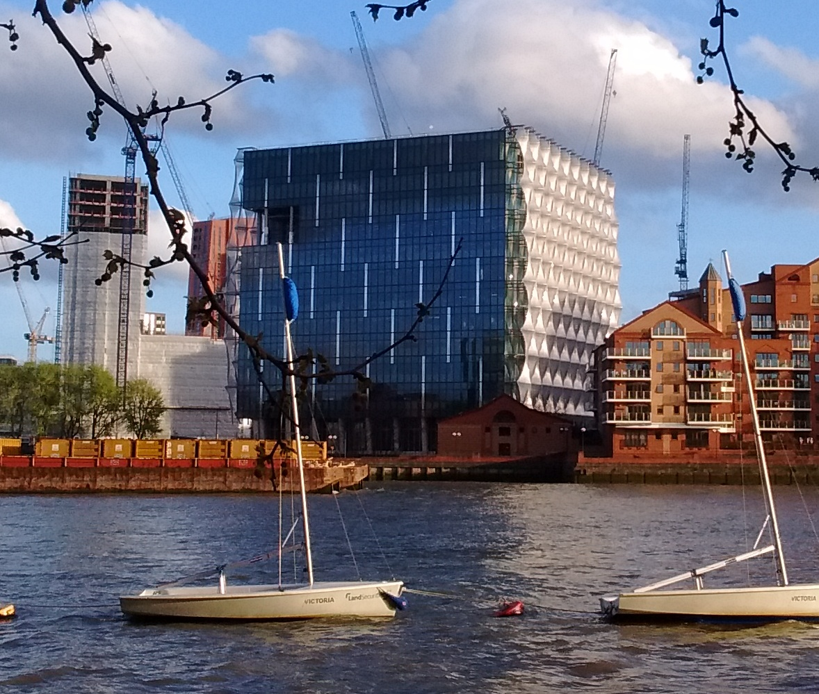 The new American Embassy in Battersea Nine Elms, with the river Thames in the foreground, as it nears completion of construction works